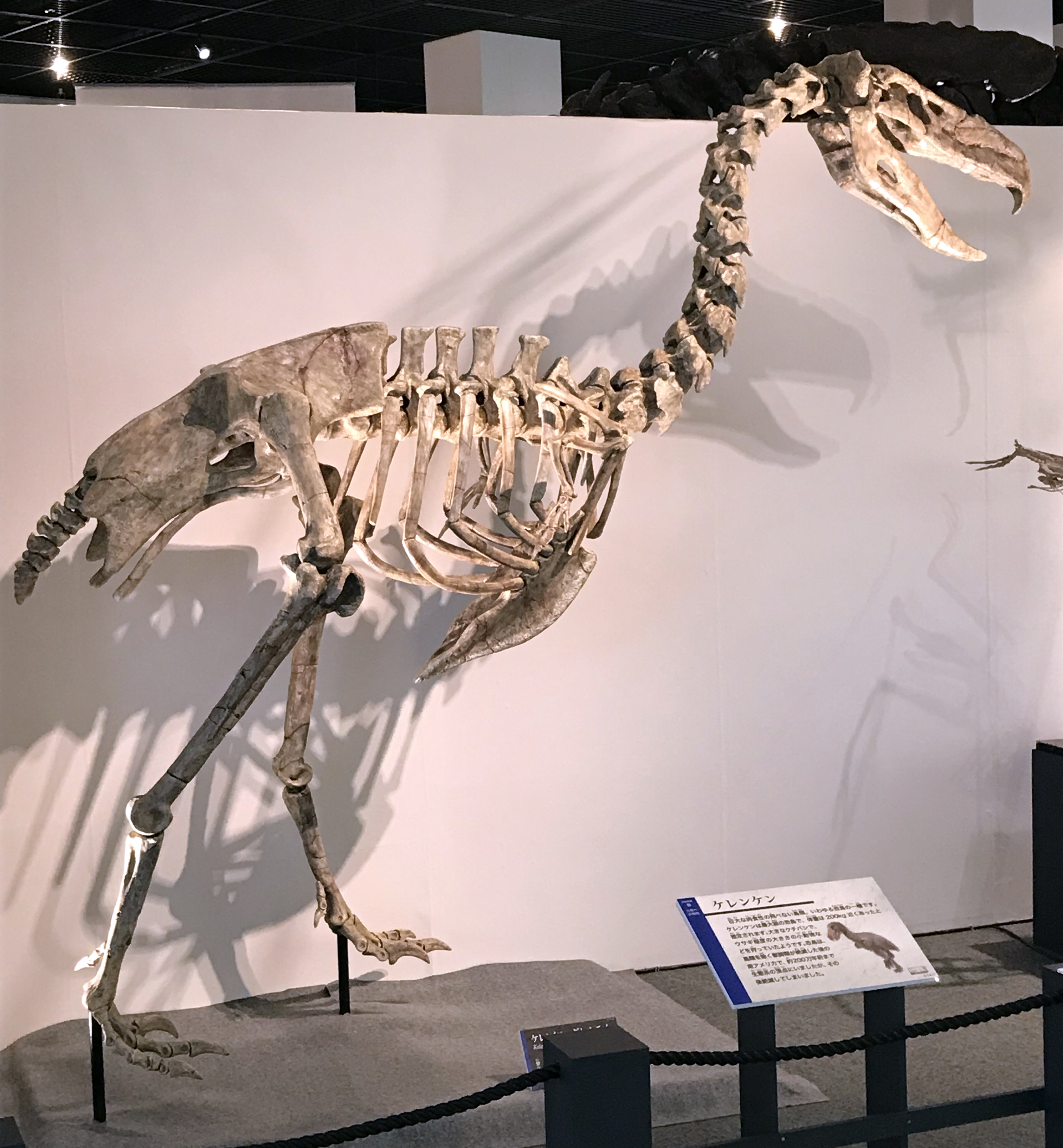 Kelenken